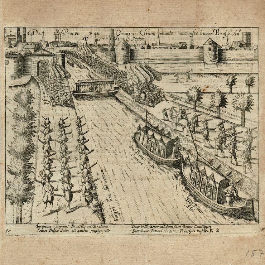 Print from 'The Wars of Nassau' by G. Baudartius, published in Amsterdam by M. Colin de Thovoyon in 1616. Subject: The triumphal entry of the Prince of Orange in Brussels on 23 September 1577. Other sources also date this entry on 22 or 24 September 1577.